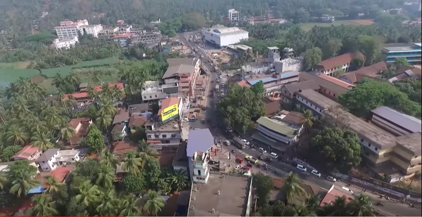 It is an aerial view of a part of the city of Malappuram in Kerala, India